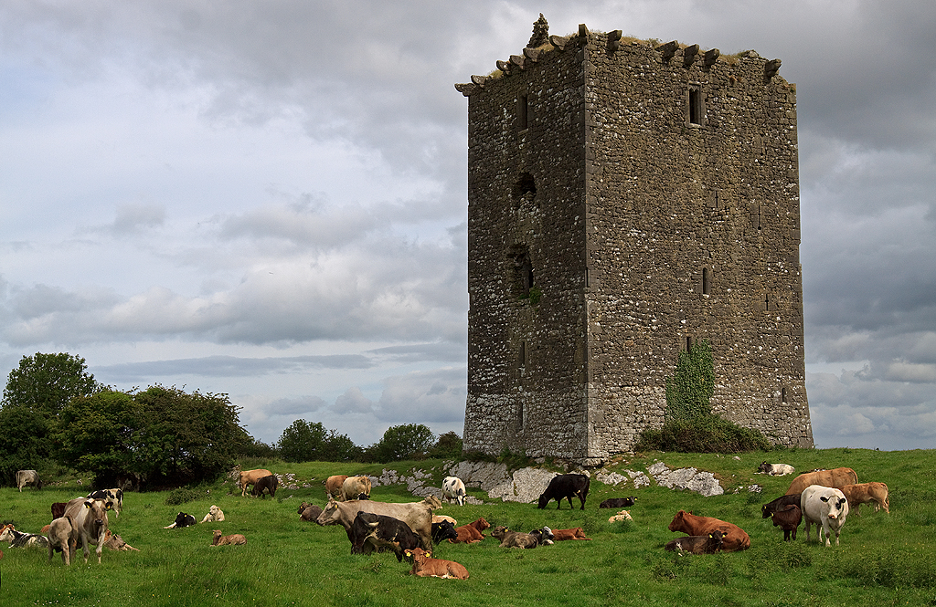 Castles of Leinster: Clonburren, Laois